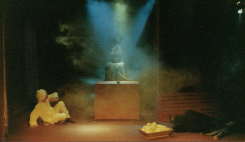 Aladdin play by municipal and Regional Theatre of Komotini